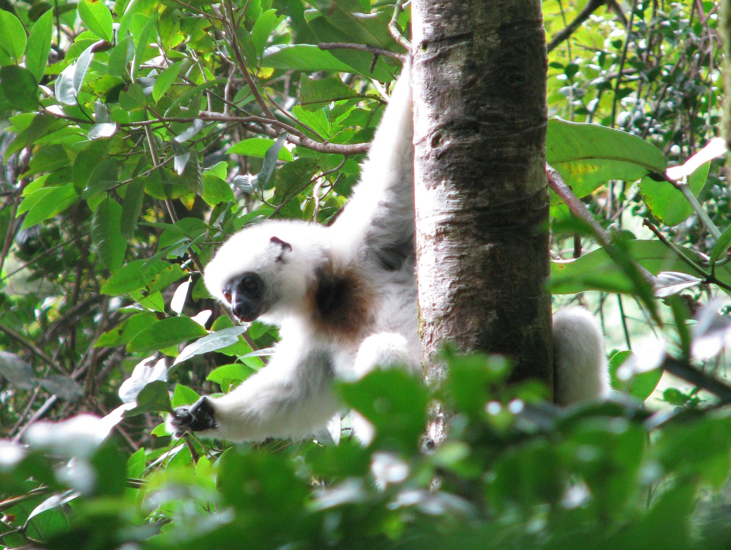 silky sifaka photo i took in the makira conservation site, madagascar